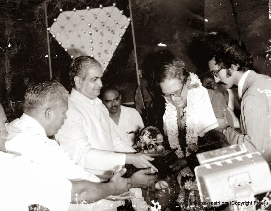 Governor of Karnataka Mohanlal Sukadia honouring S. Srikanta Sastri on the occasion of Diamond Jubilee celebrations at Mythic Society